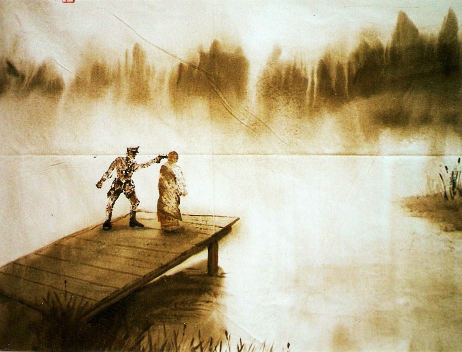 Picture detail of painting "Kein Mangel - kein Überfluss" (No scarcity - no affluence)